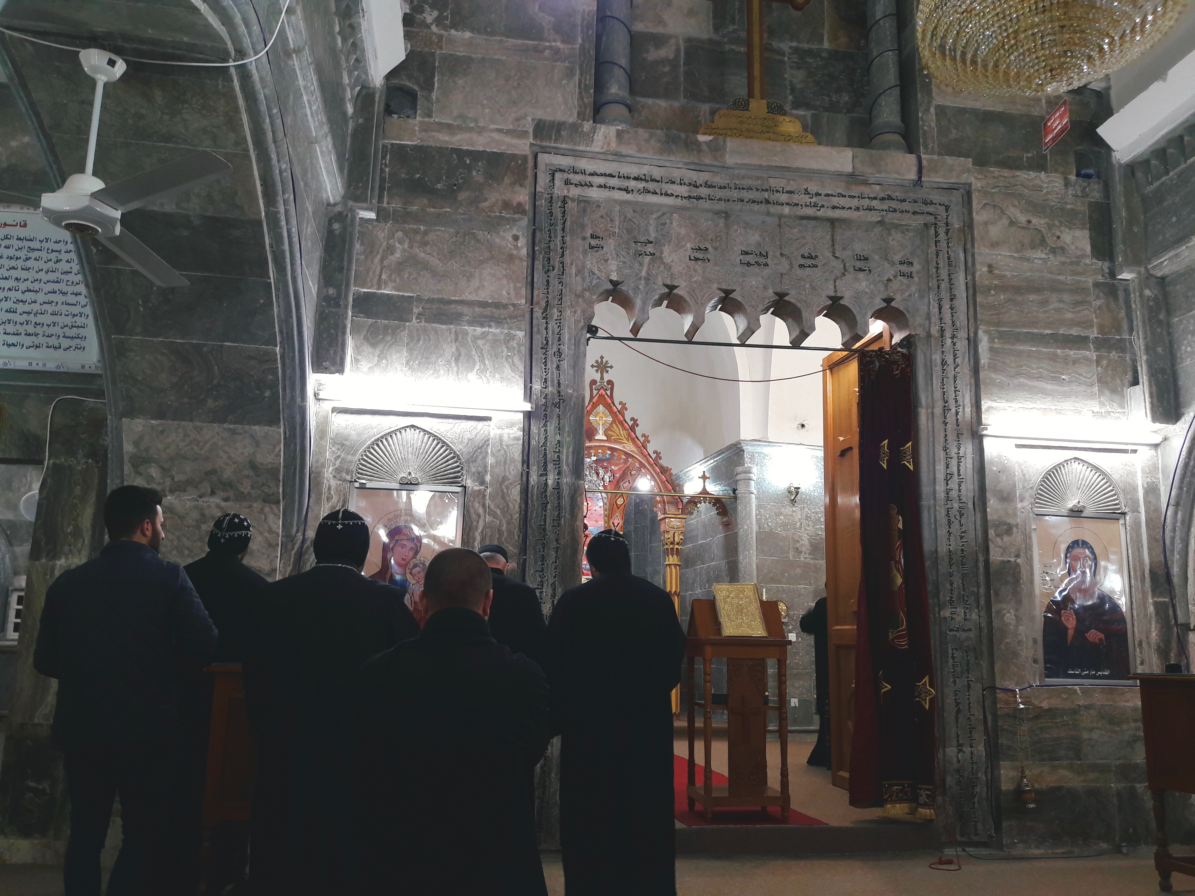 Located near Erbil and overlooking Mosul, Bashiqa, and Bartella.